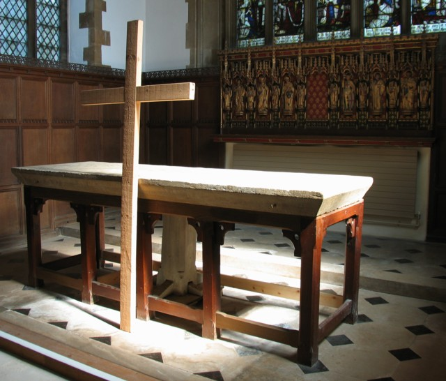 Church of England parish church of St Andrew, Whissendine, Rutland: the altar on Good Friday